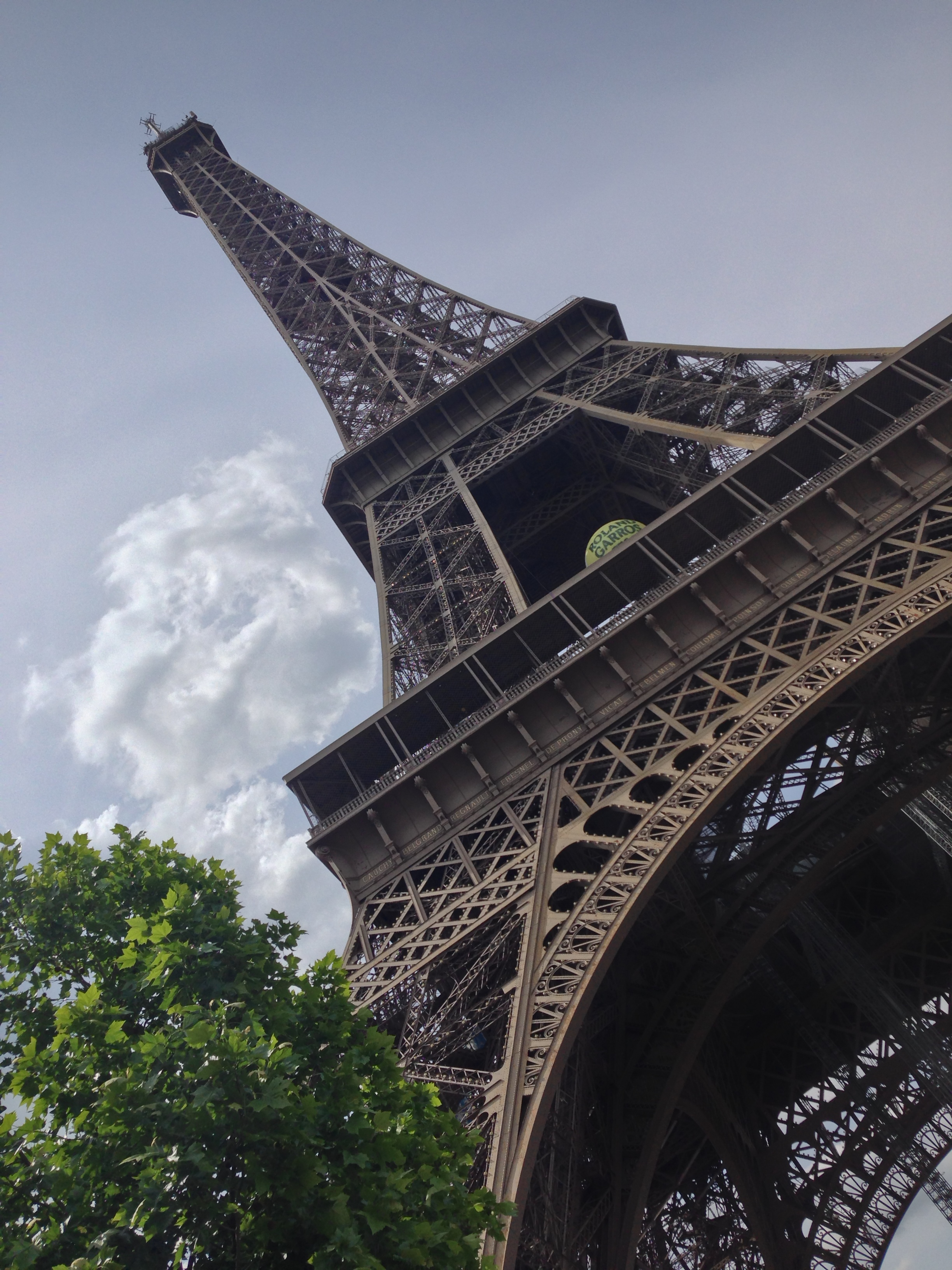 Eiffel Tower, Paris, May 2014